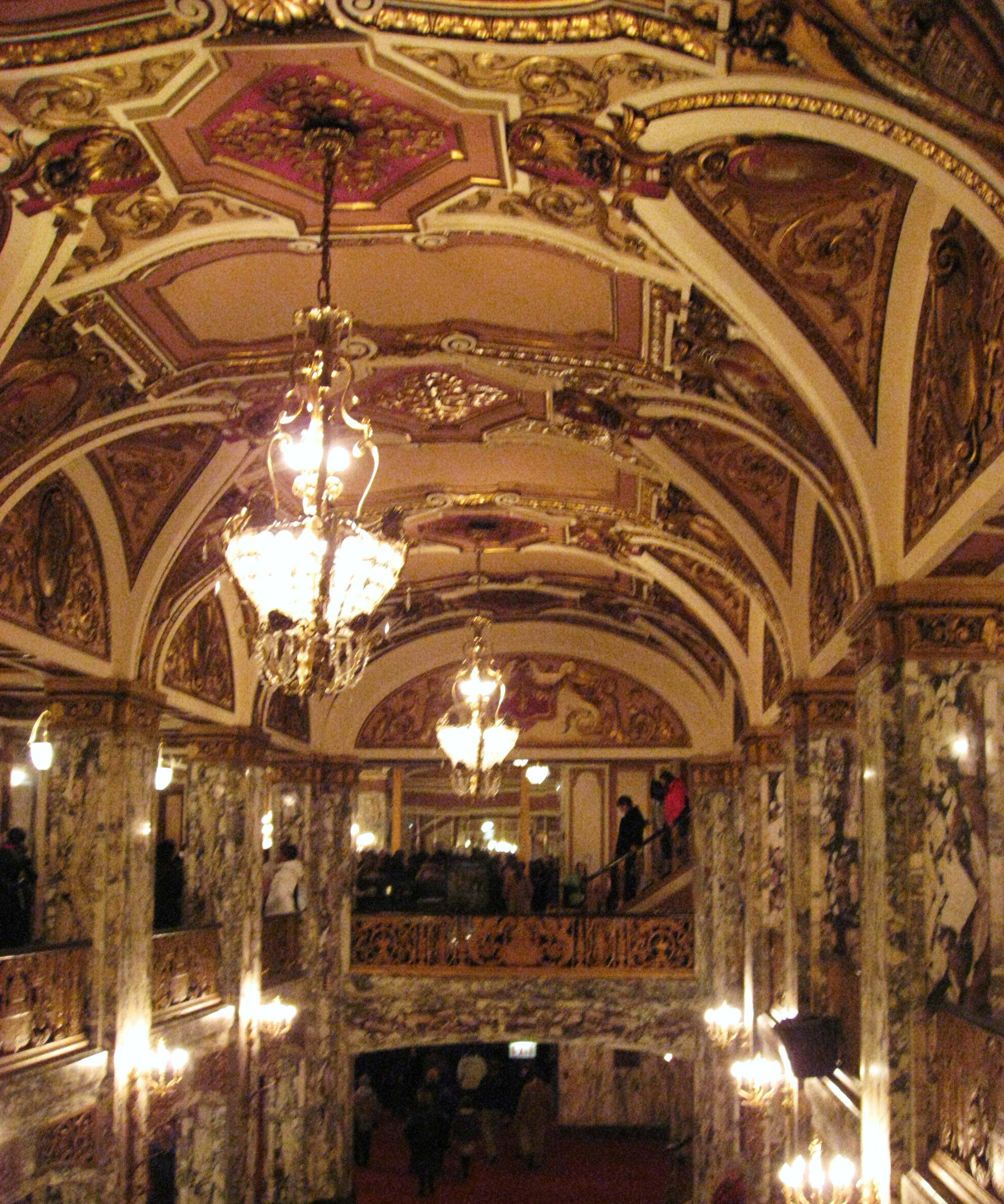 The interior of the Cadillac Palace Theatre includes huge decorative mirrors, breche violet and white marble. The walls inside are adorned with gold leafing and wood decorations, as well as a series of complex arches and detailed brass ornamentation. This design was taken from both Fontainbleu and Versailles.